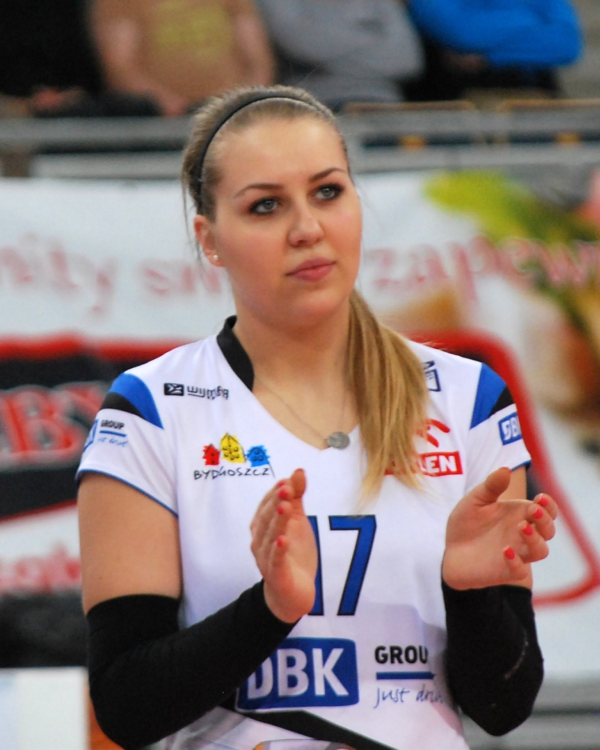 Pola Nowakowska, volleyball player from Poland